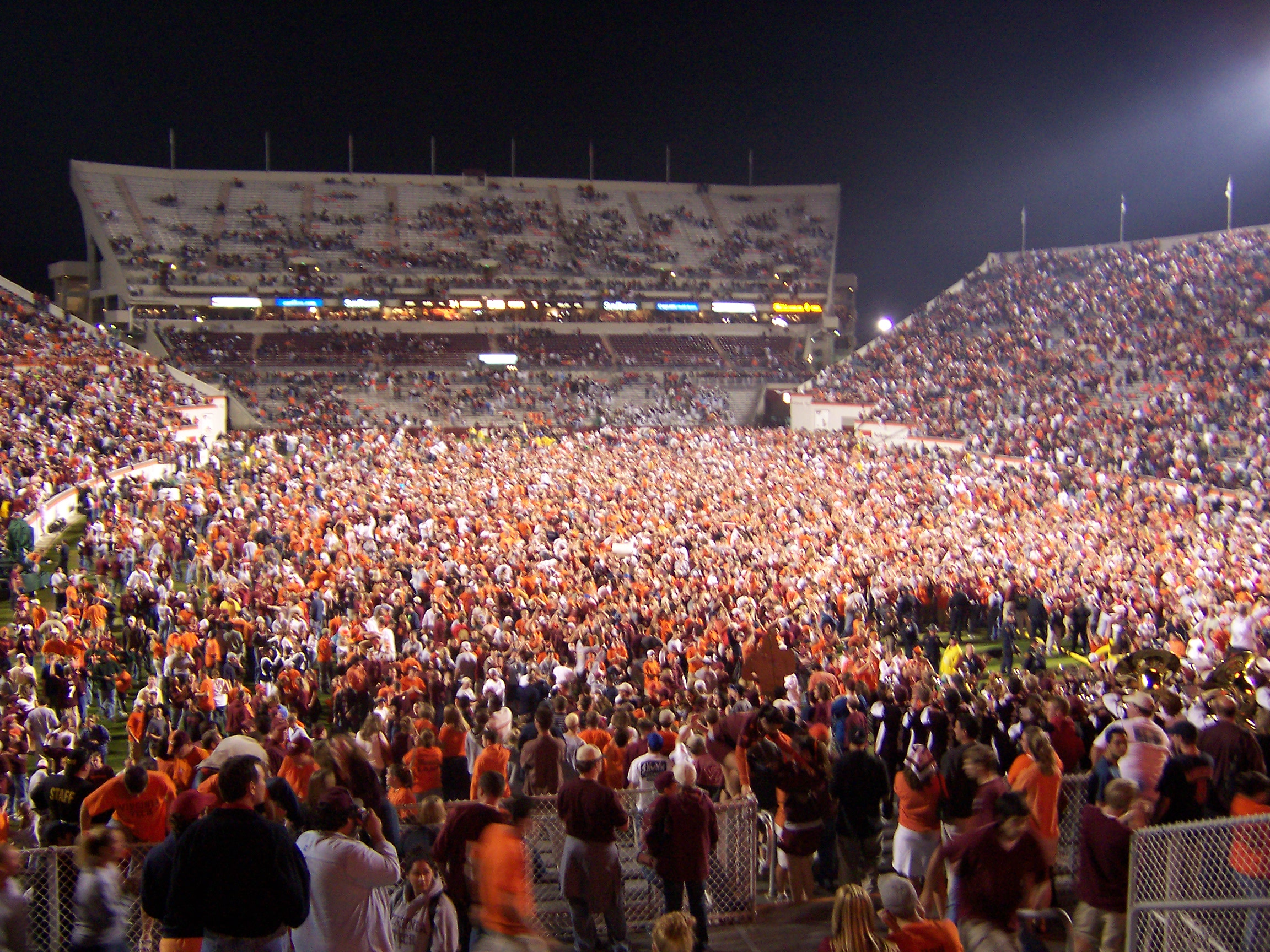 Photographed November 1, en:2003. Virginia Tech students and fans rush the field after Virginia Tech defeated the Miami Hurricanes 31-7. Category:Virginia Polytechnic Institute and State University